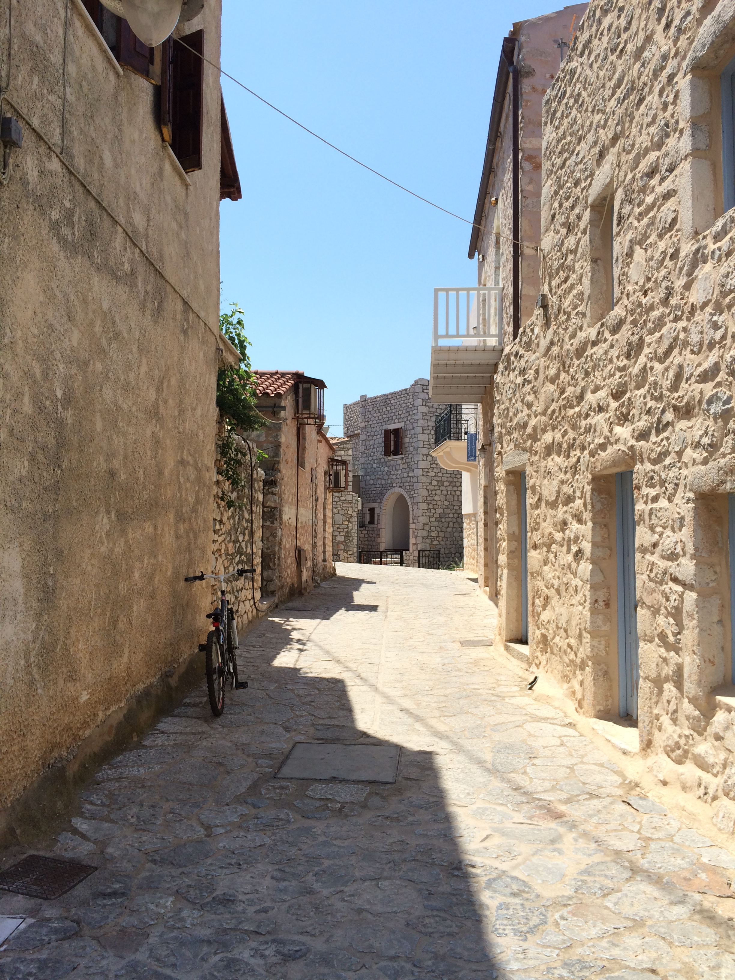 Street of Aeropolis v2